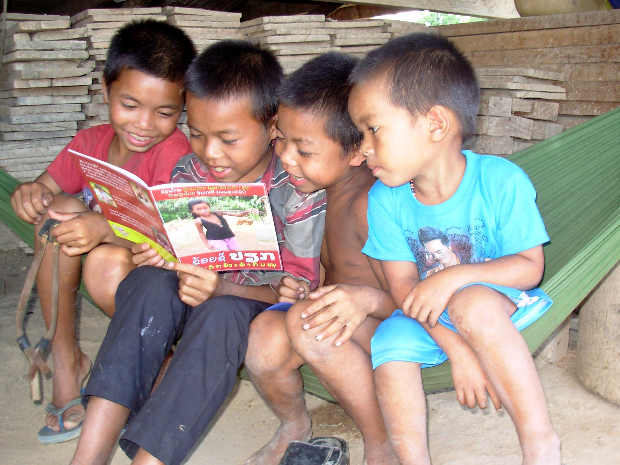 Four Ta-Oy boys in Salavan province of Laos enjoy a book that was provided by the photographer. The book shows the everyday life of other children in Laos, and most likely they had never seen such photographs; most schools have no books other than textbooks. The Ta-Oy are one of the 49 ethnic groups recognized by the Lao government; most live in the southern region of the country